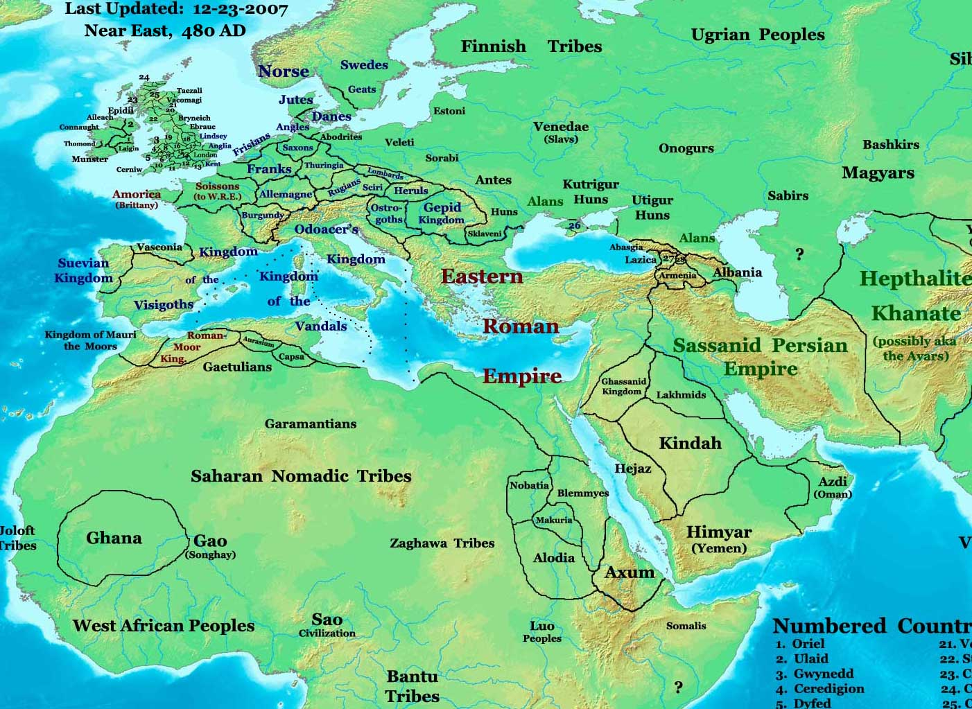 Africa, Near East and Europe about 480 AD